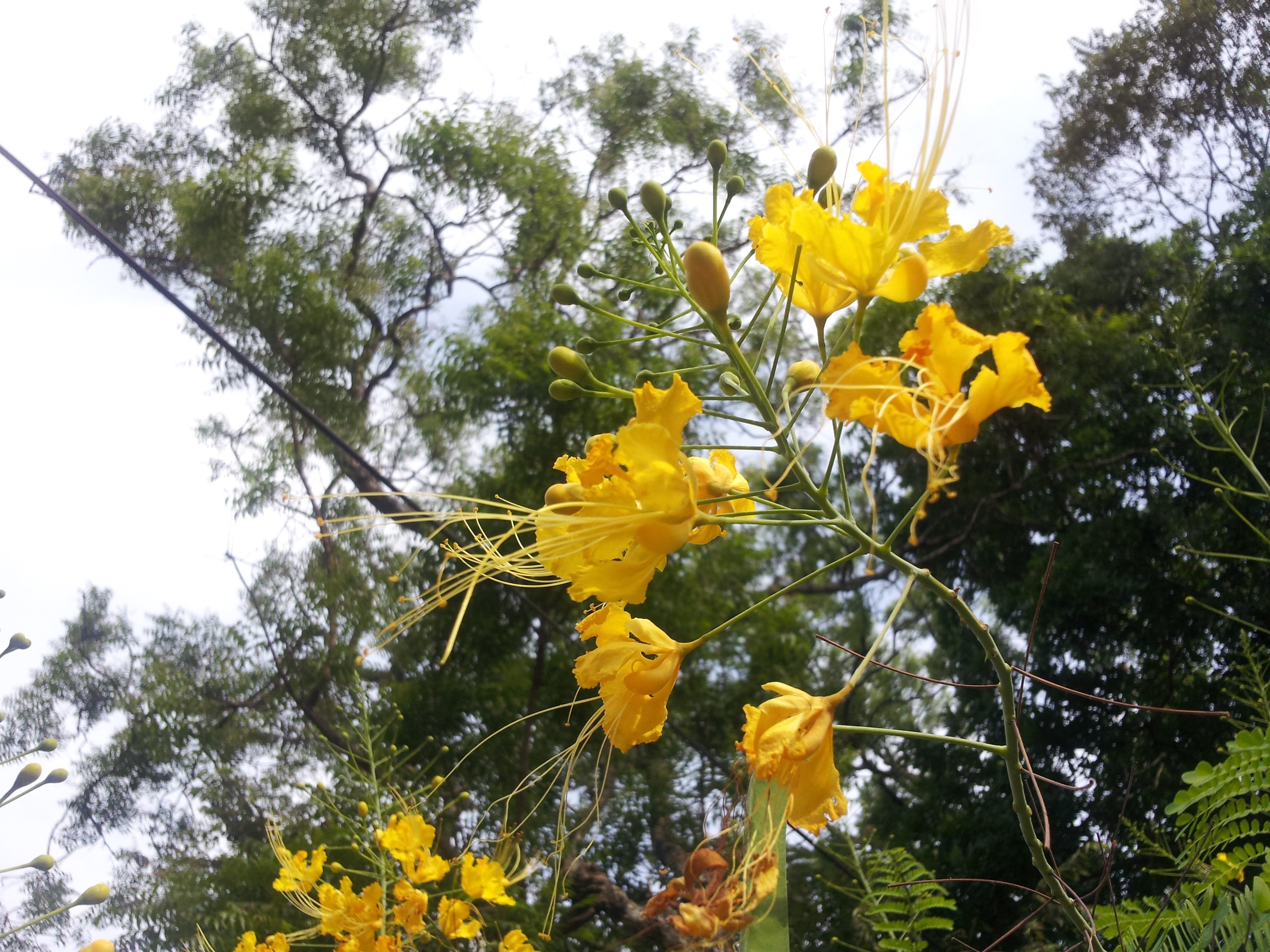 Caesalpinia pulcherrima yellow variety in Mihintale, Sri Lanka